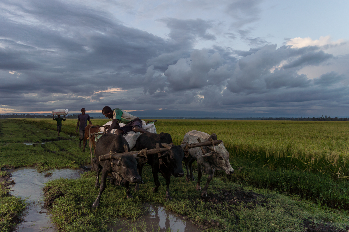 After a long day of harvesting in the rice fields of Mwea, Kenya, it is time to go home. As the clouds gather for a heavy downpour the boys have one last task . To get the cows pulling the cart to move fast. This is an image of music and dance from Kenya